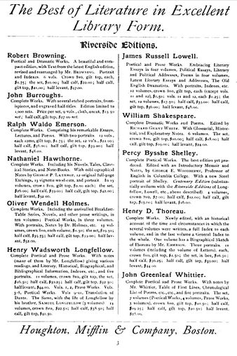 advertisement in Vol. 21 of the The Harvard Monthly